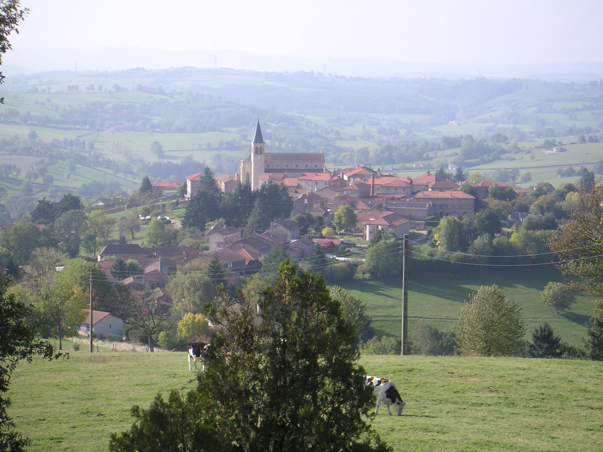 La Gresle, seen from the Madonna early fall